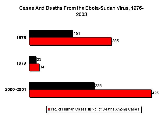 Original Source Info: Source: 'Ebola Hemorrhagic Fever Table Showing Known Cases and Outbreaks, in Chronological Order', Centers for Disease Control and Prevention, en:18 October en:2002. Ebola-Sudan chart that I created. Radical edward at the English Wikipedia, the copyright holder of this work, hereby publishes it under the following license: Attribution: Radical edward at the English Wikipedia